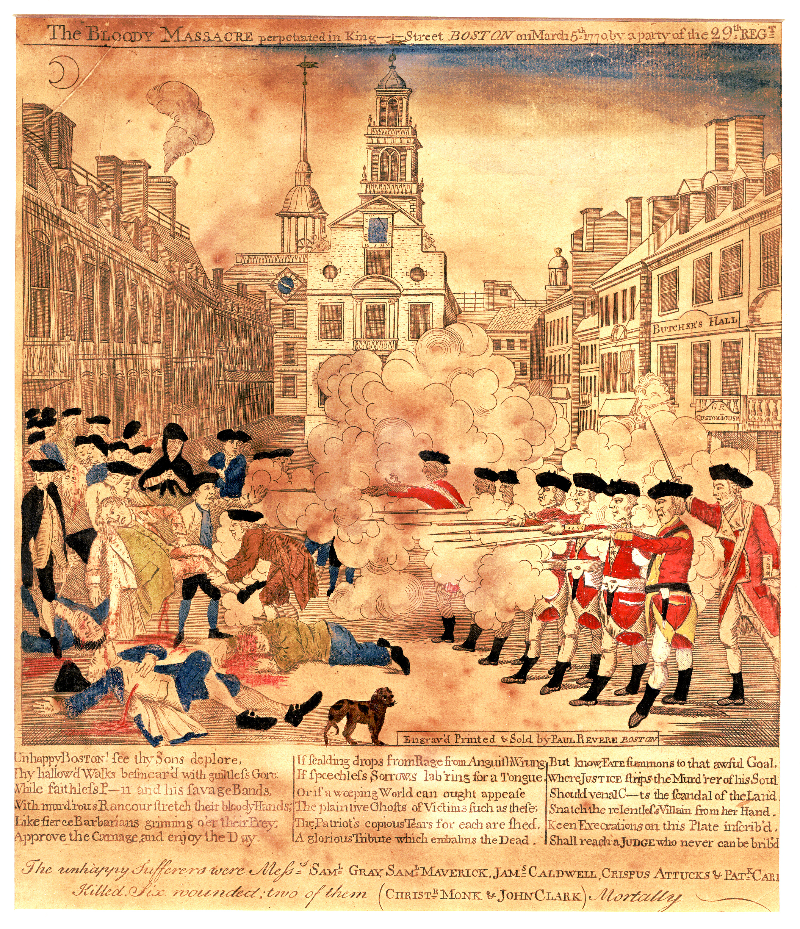 Boston Massacre engraving by Paul Revere. This is not an accurate depiction of the event (it did not occur in close quarters, nor with the British commander behind his troops) and is thought to be plagiarized from a drawing by artist Henry Pelham. There was one (probably) black man, named Crispus Attucks, and 4 other laborers who died that day.